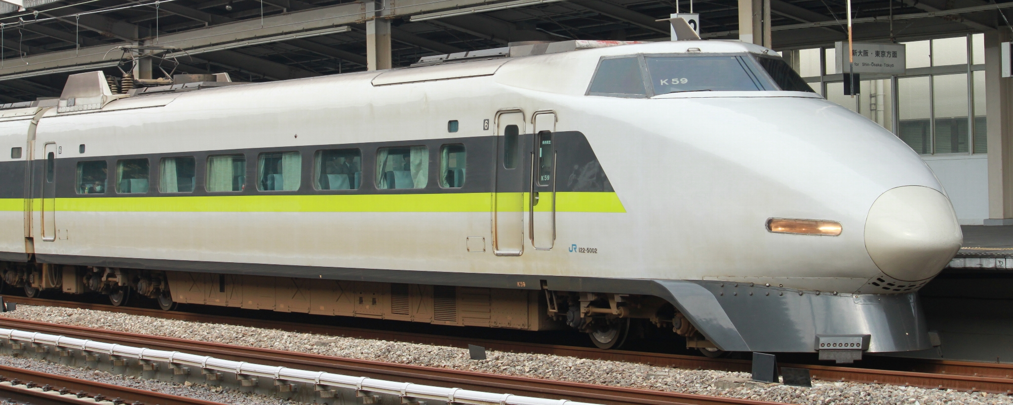 Shinkansen series 100(122-5002) in Nishi-Akashi Station